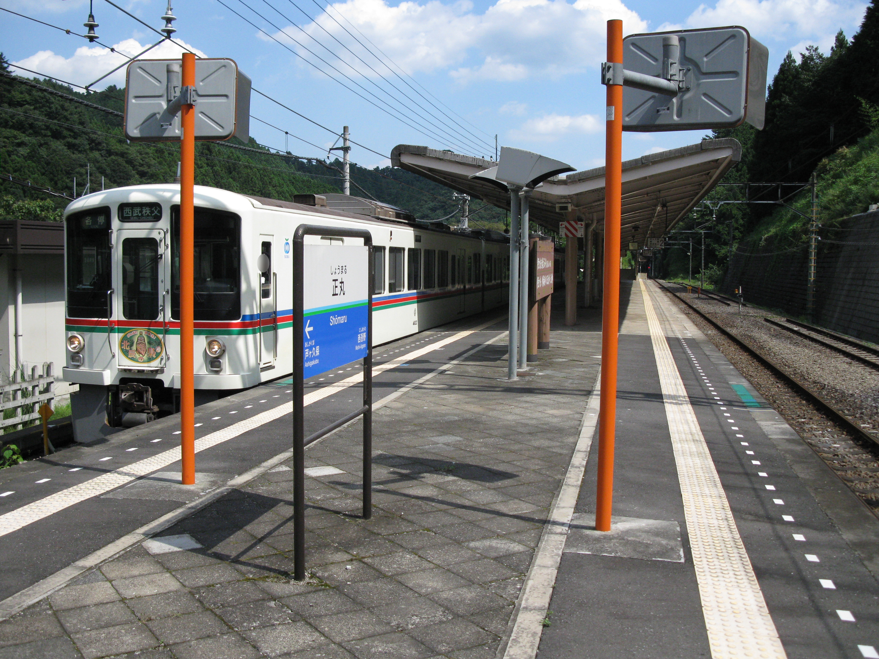 Shōmaru Station platform (Seibu Railway Seibu Chichibu Line)